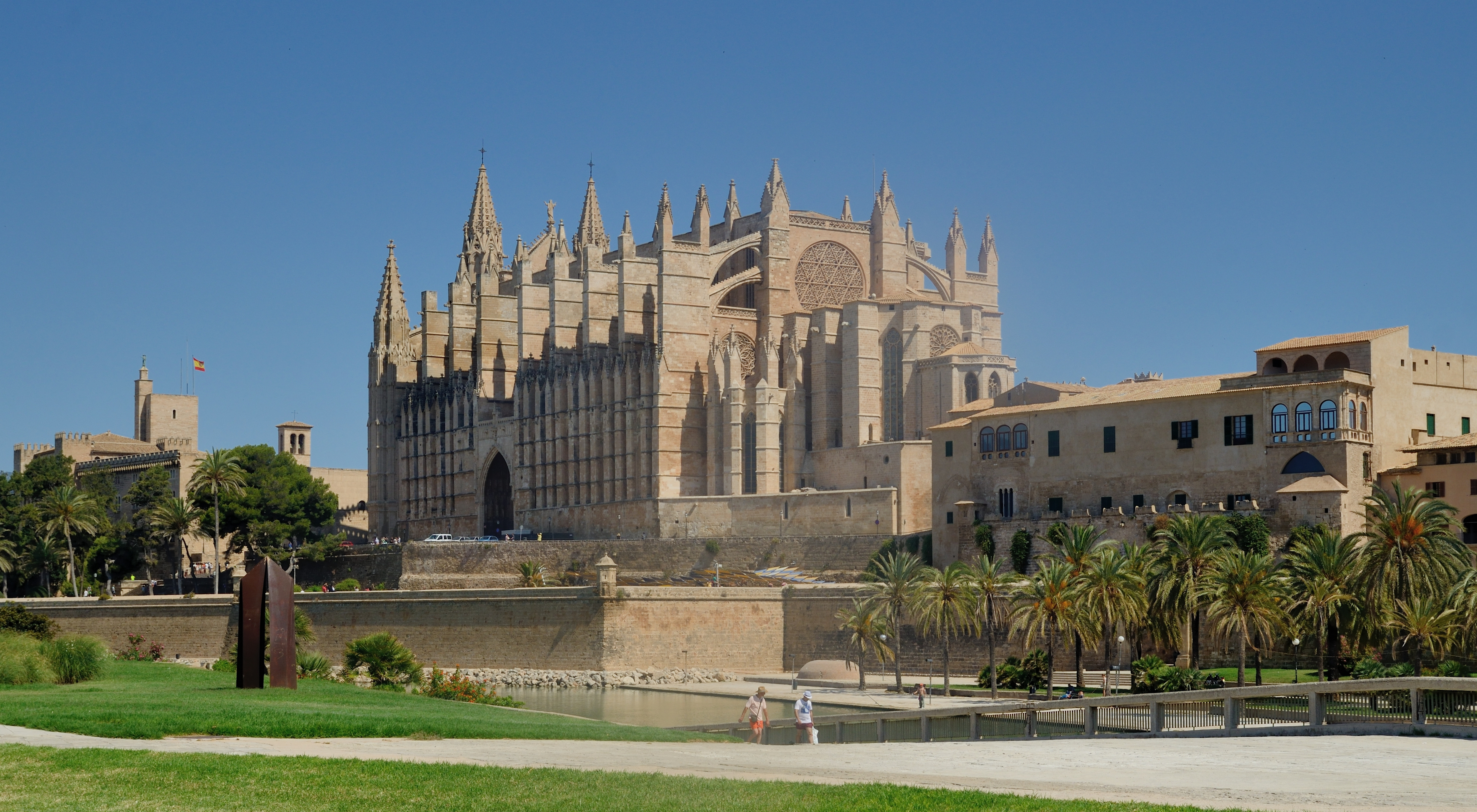 Palma Cathedral